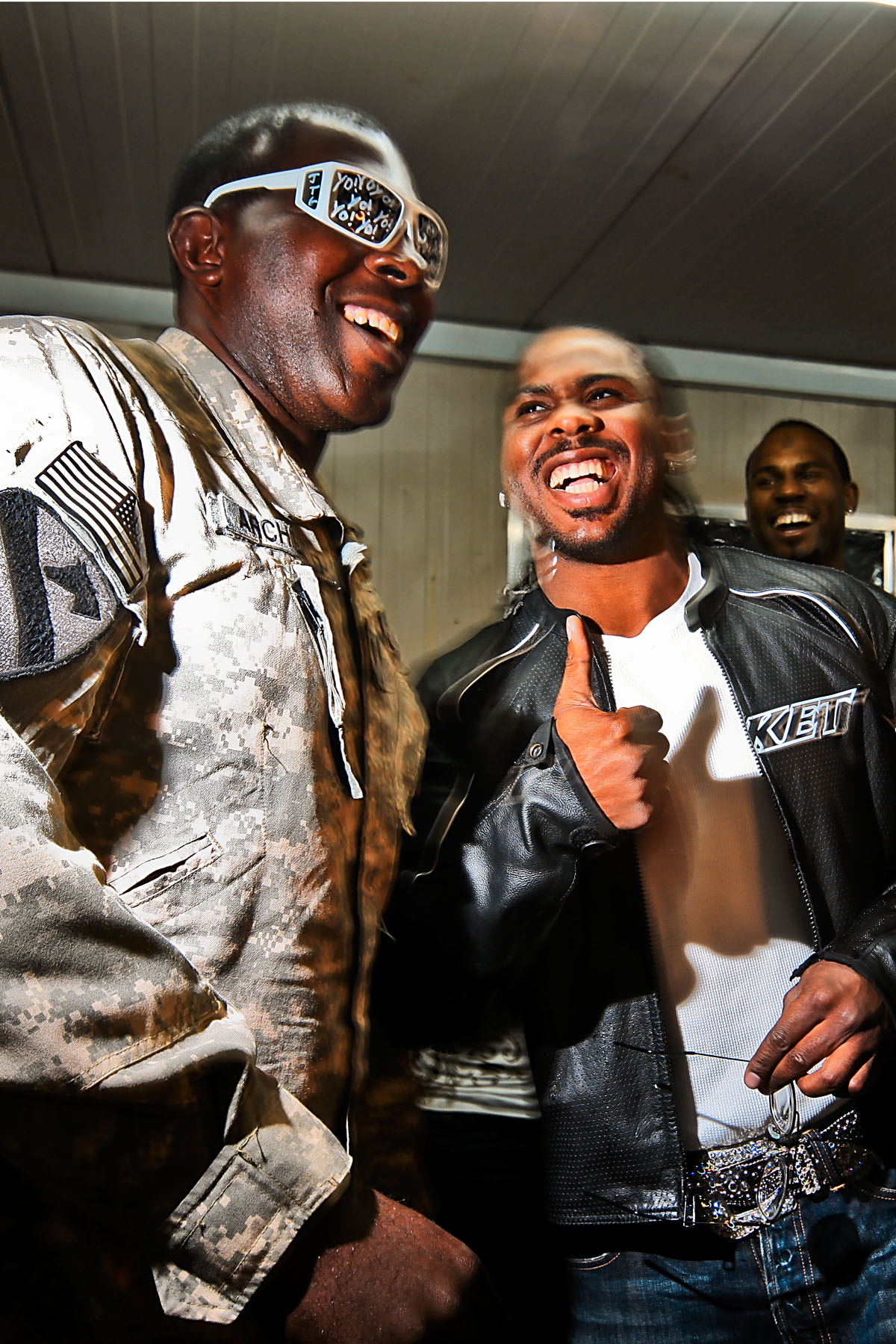 Profesional wrestler JTG (right) gives a thumbs up after placing his sunglasses on Spc. Marcus Archibald, a fueler in Company A, 615th Aviation Support Battalion, 1st Air Cavalry Brigade, 1st Cavalry Division, during a Morale Welfare and Recreation sponsored World Wrestling Entertainment tour, here, Dec. 2.